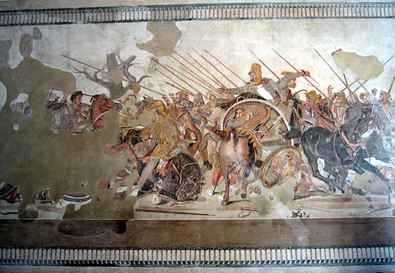 Roman mosaic from Pompei, copy of Greek painting depicted the Battle of Issus